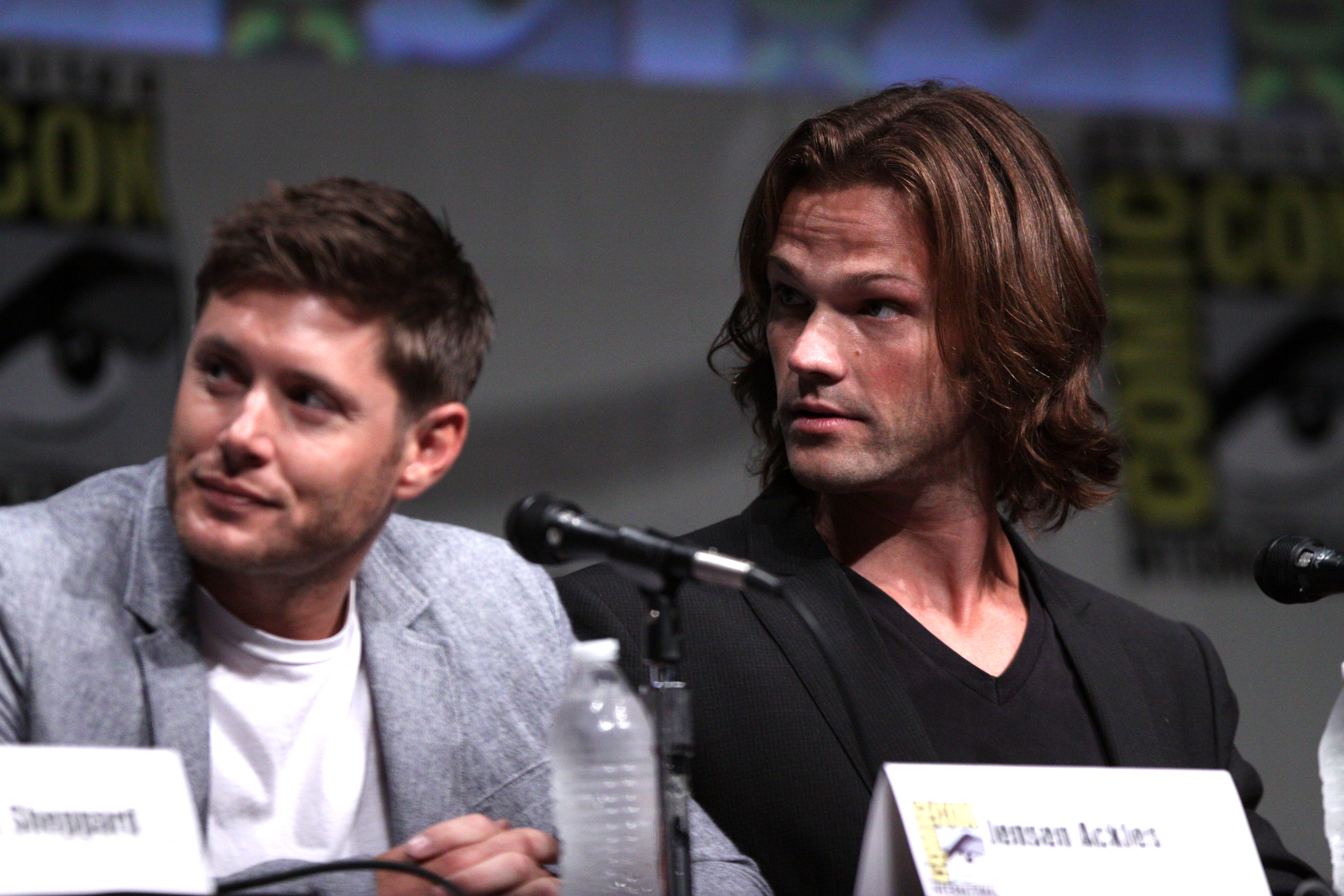 Jensen Ackles & Jared Padalecki speaking at the 2012 San Diego Comic-Con International in San Diego, California.